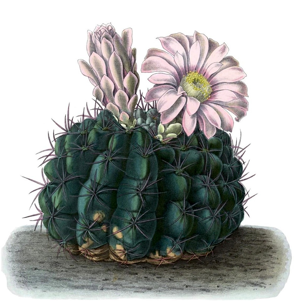 Gymnocalycium mostii